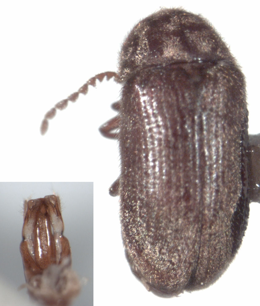 adult male Xyletobius watti, with aedeagus dissected out